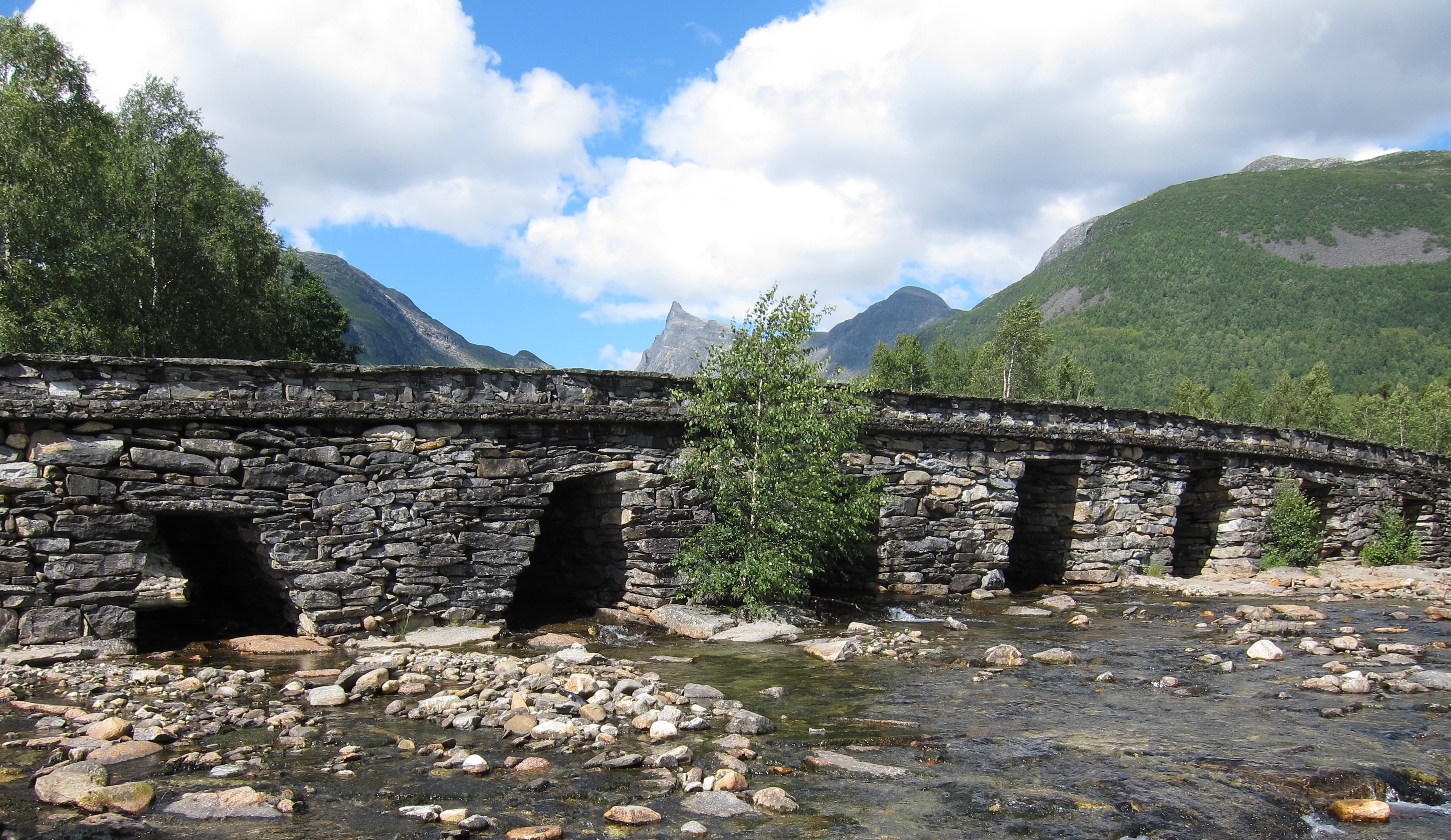 Horndøla old bridge, road 60 in Sogn og Fjordane, Norway